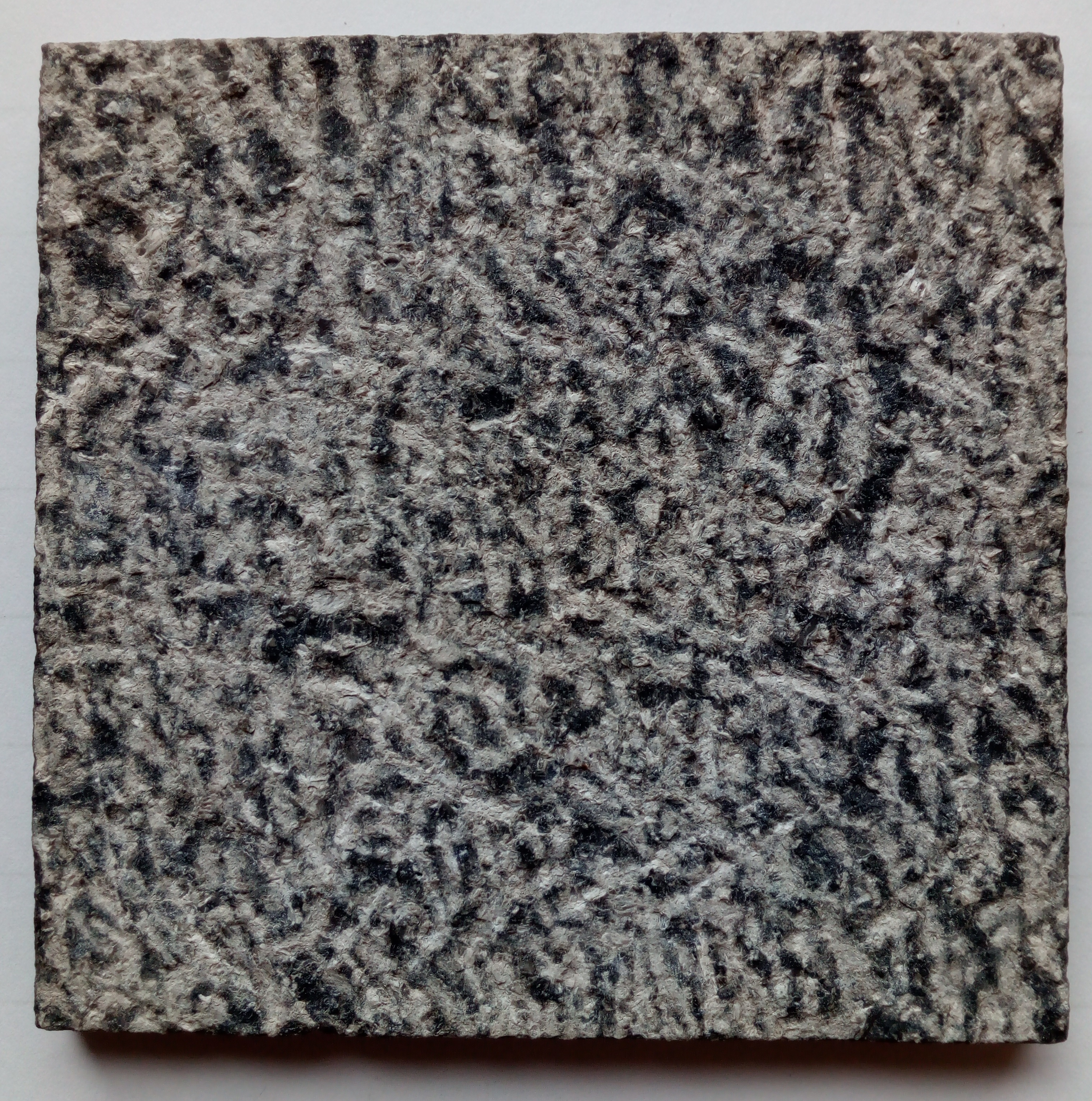 Frosted stone front